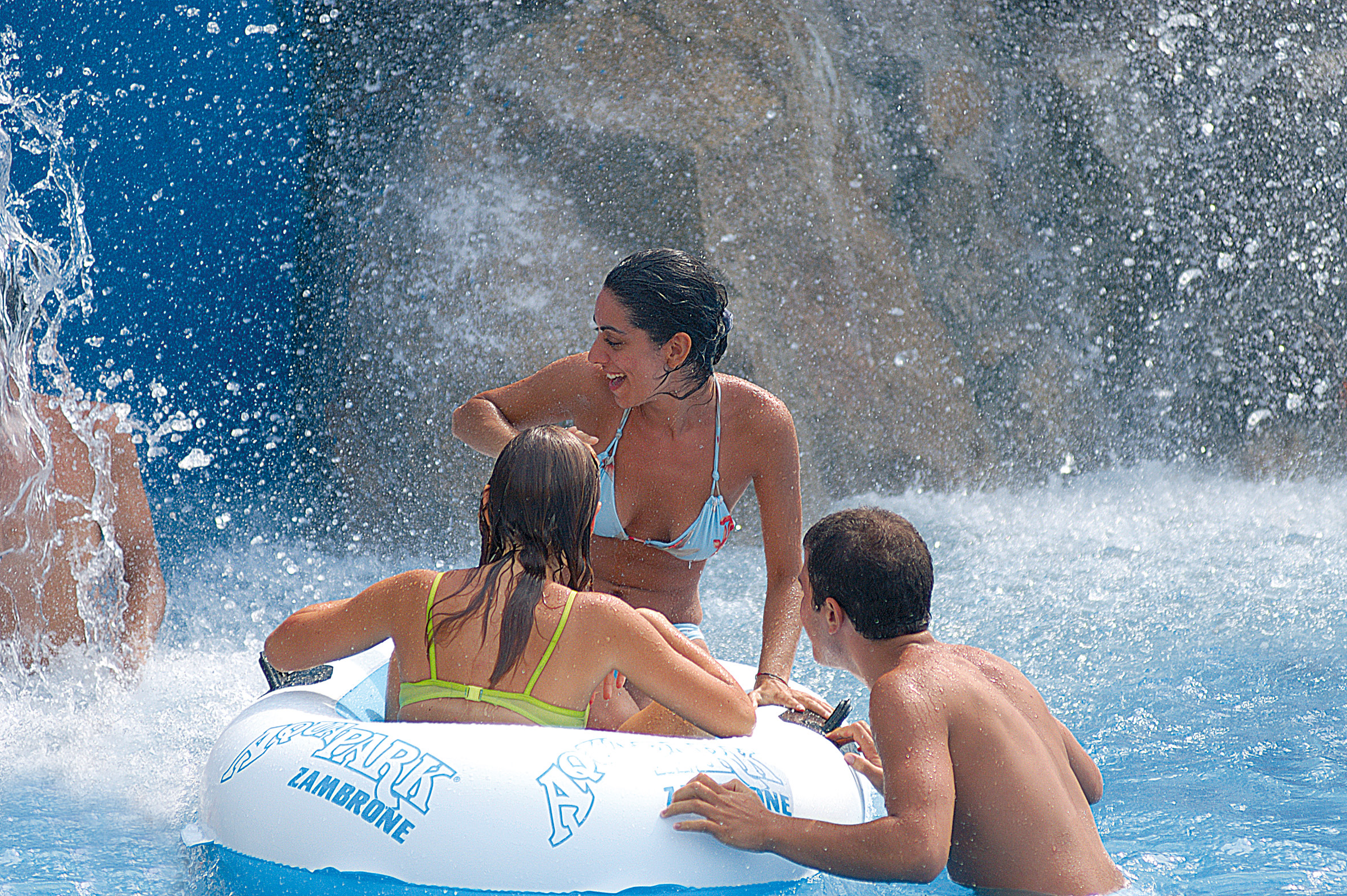 Waterfall at AQUAPARK in Zambrone